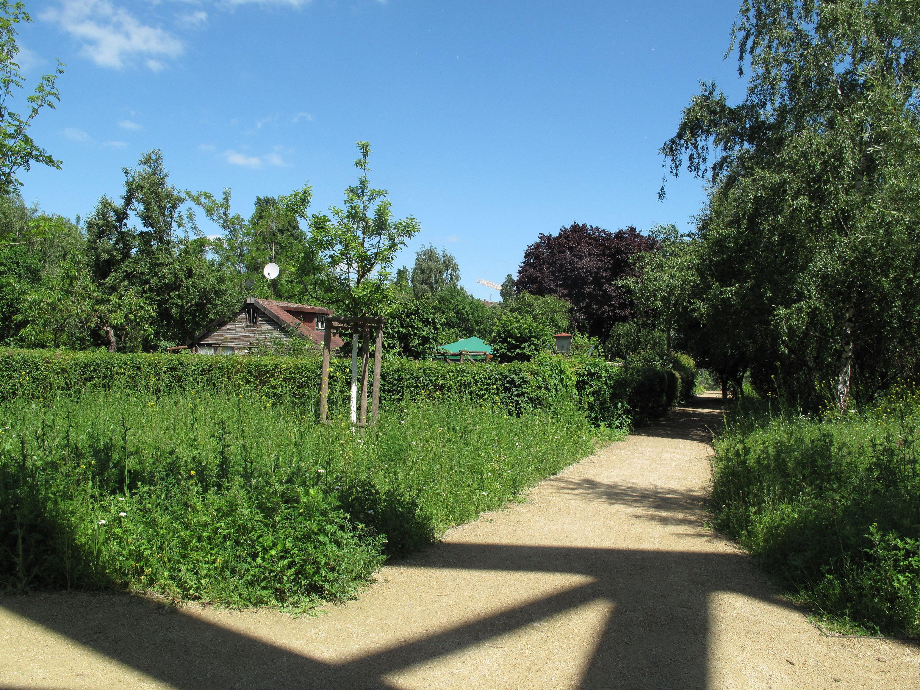 Garden Colony in the Westpark. The Westpark is a 9 hectare part of the Park am Gleisdreieck in Berlin-Kreuzberg, Germany. The Westpark was opened on May 31, 2013.